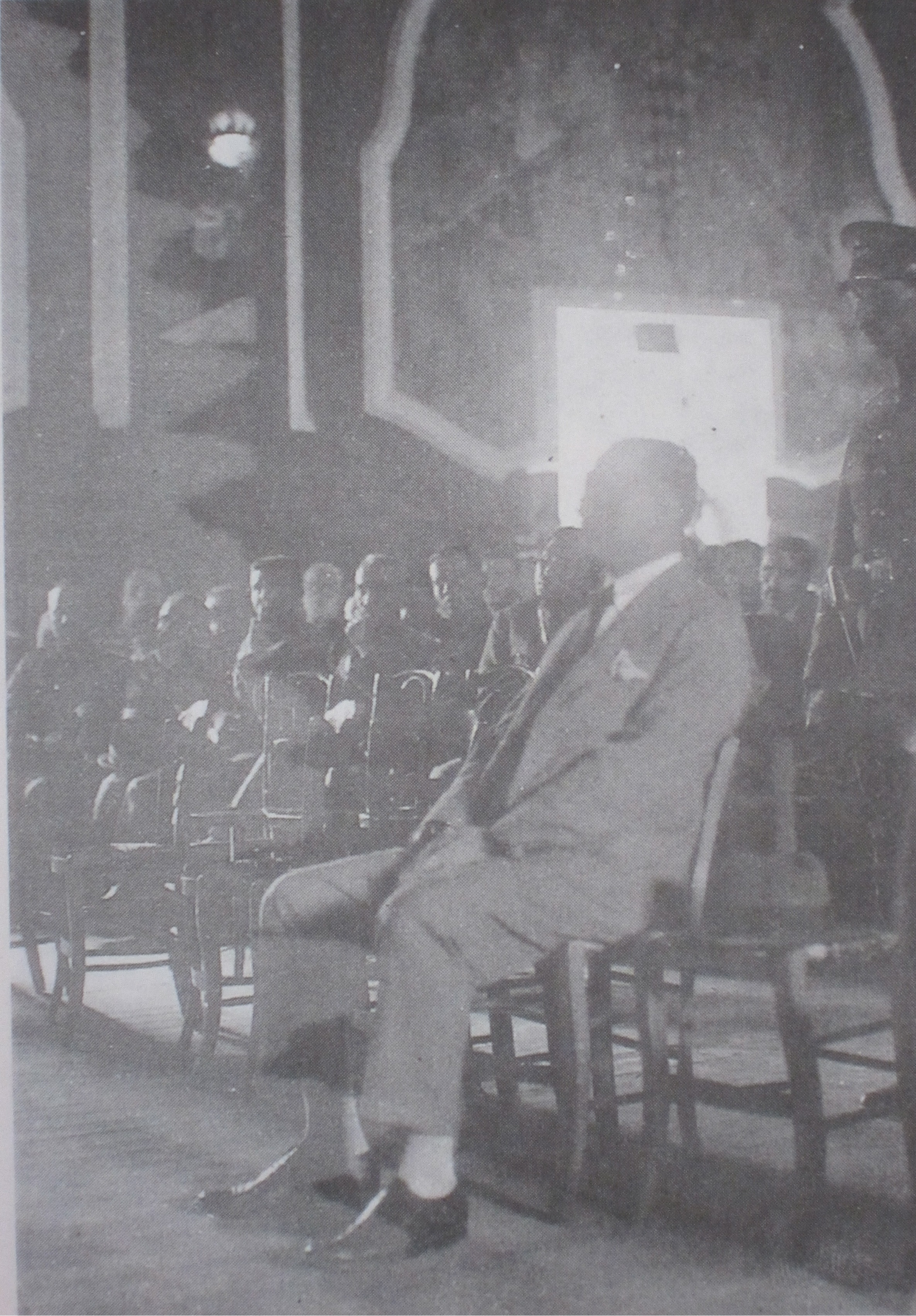 Ismail Djanbulad Bey at the trial